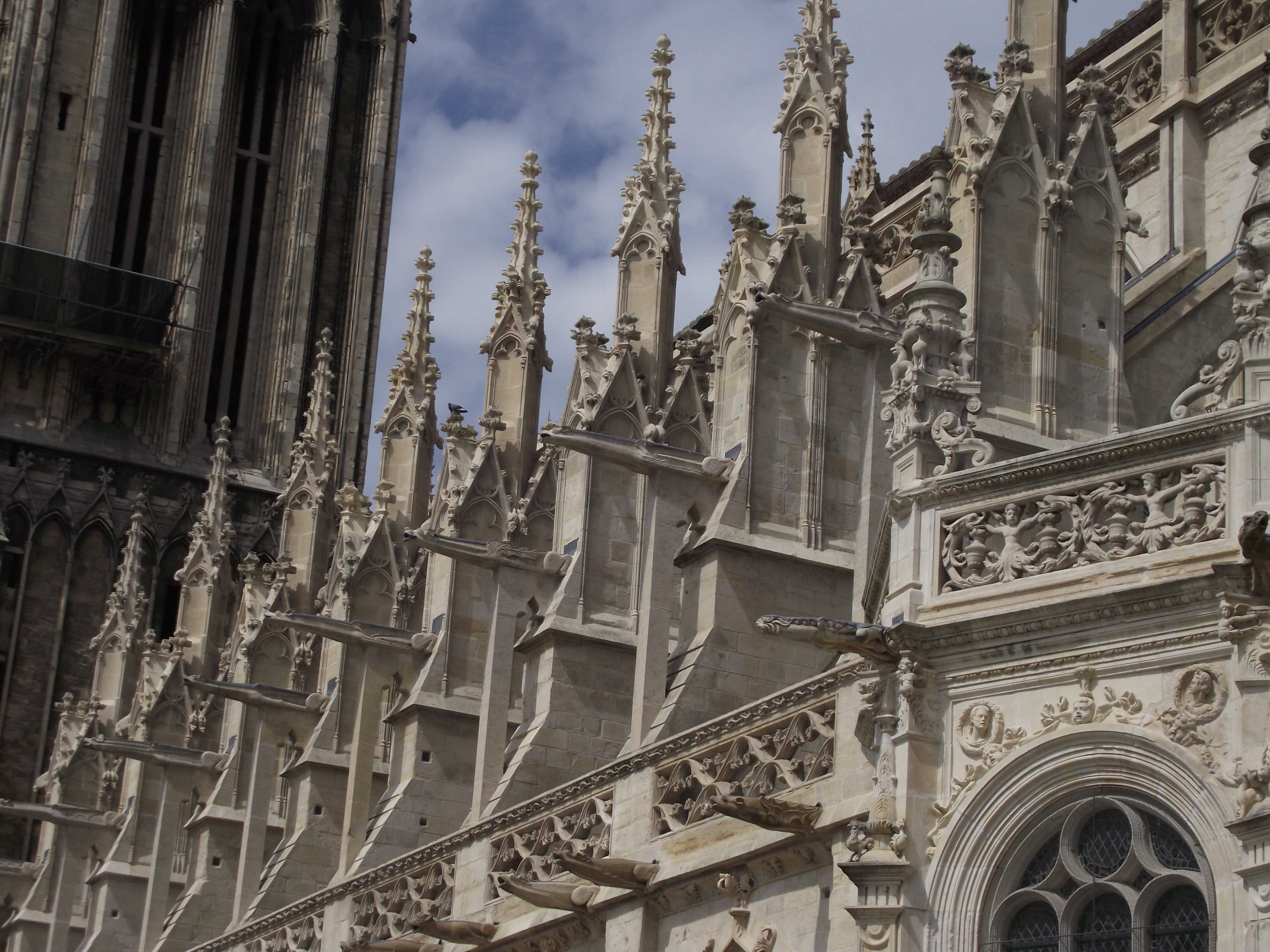 Caen, Choir of St. Peter's Church, 1513-45